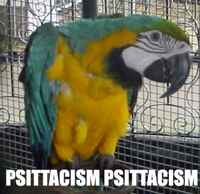 Photograph of a parrot with a 'lolcat' style label of 'psittacism psittacism'